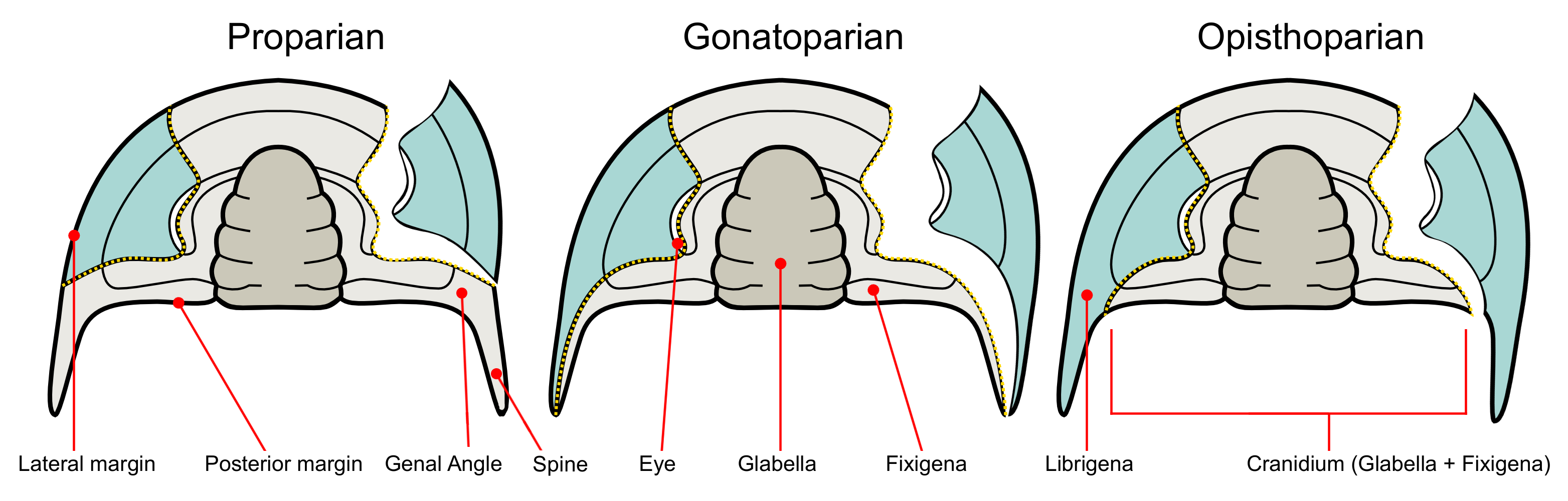 Diagram showing the three kinds of facial sutures in trilobites